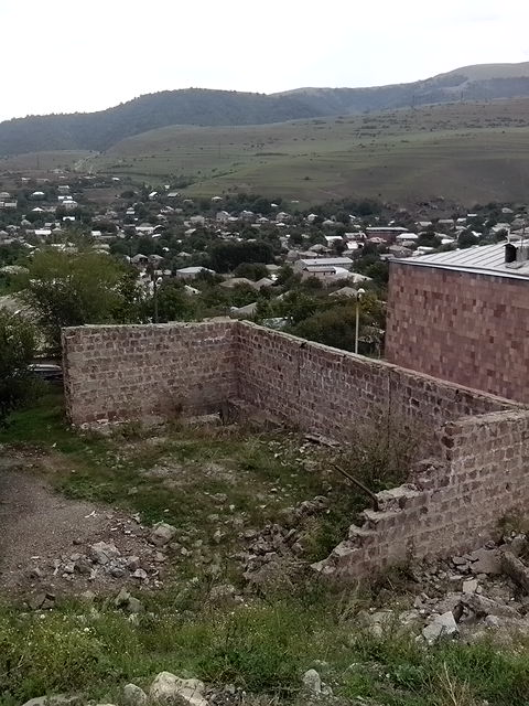 View of Gugark from a hill